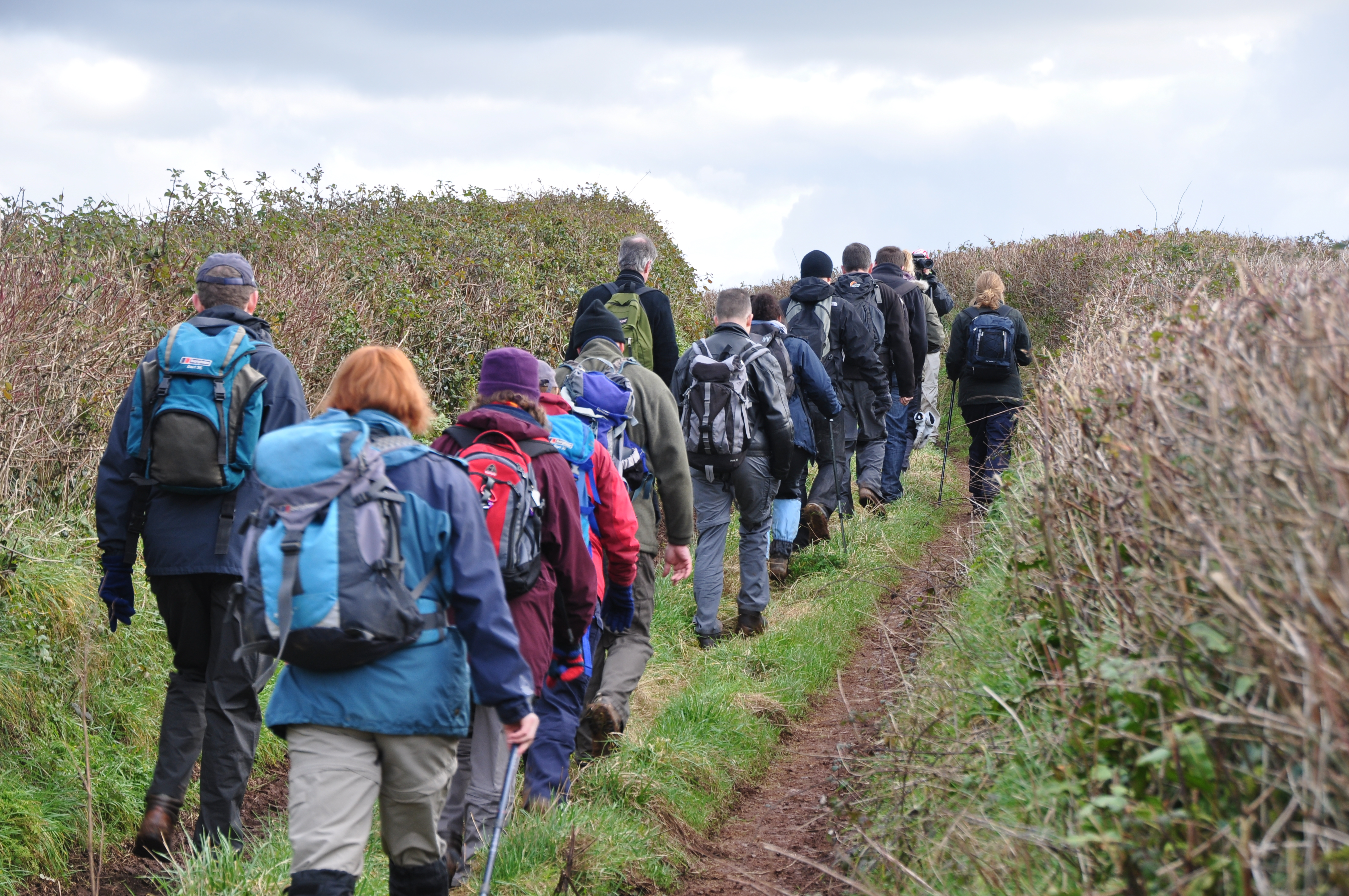 Mid Devon : Farm Track & Ramblers